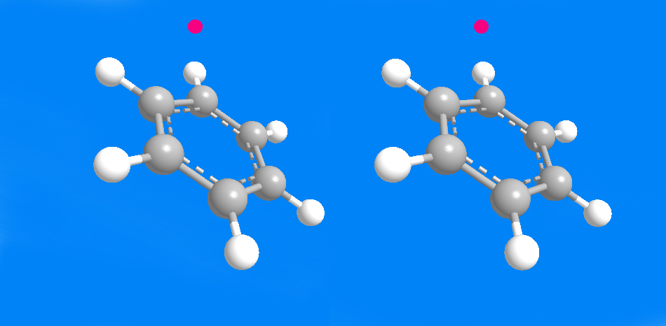 Benzene's 3D Crossed Eyed model. In order to view properly, cross your eyes until the two red dots merge, then look down to see the model in 3d.